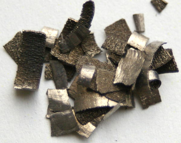 Dysprosium chips